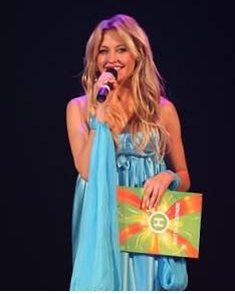 Eve Bushmina at the concert in Kremenchug